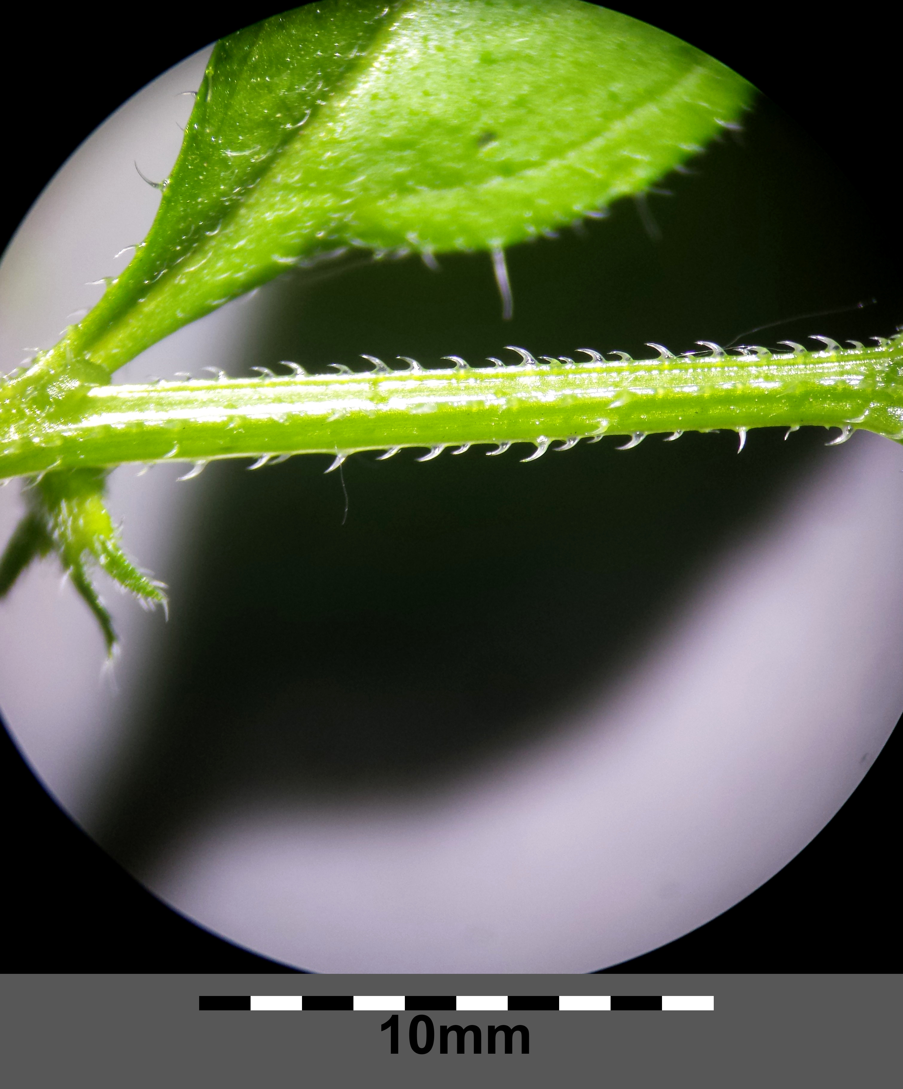 Stem of inflorescence with barbed hooks Taxonym: Asperugo procumbens ss Fischer et al. EfÖLS 2008 ISBN 978-3-85474-187-9 Location: Schwaigergasse, Vienna-Floridsdorf - ca. 160 m a.s.l. Habitat: shrubbery